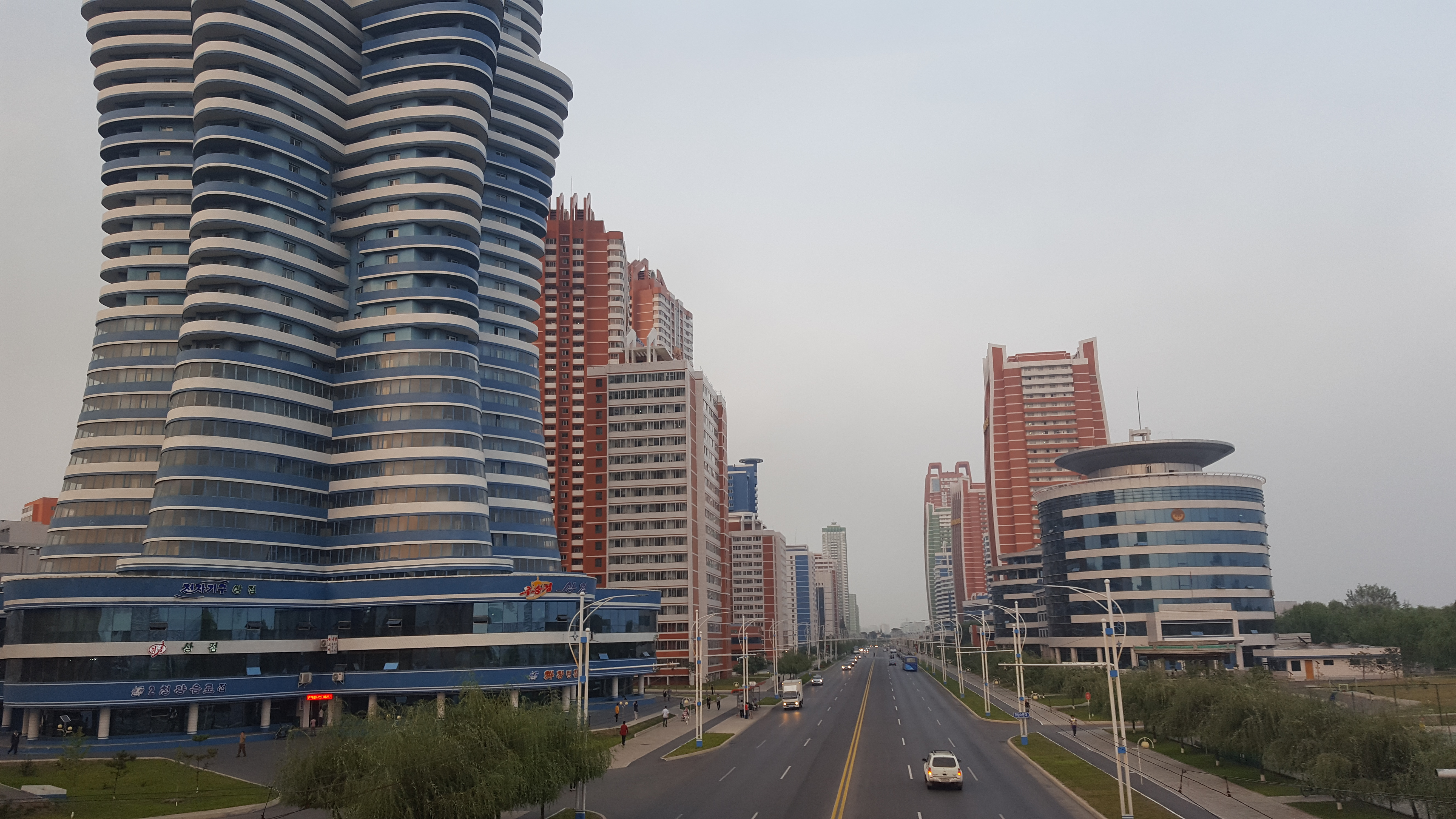 Part of Mirae Scientists Street in Pyongyang